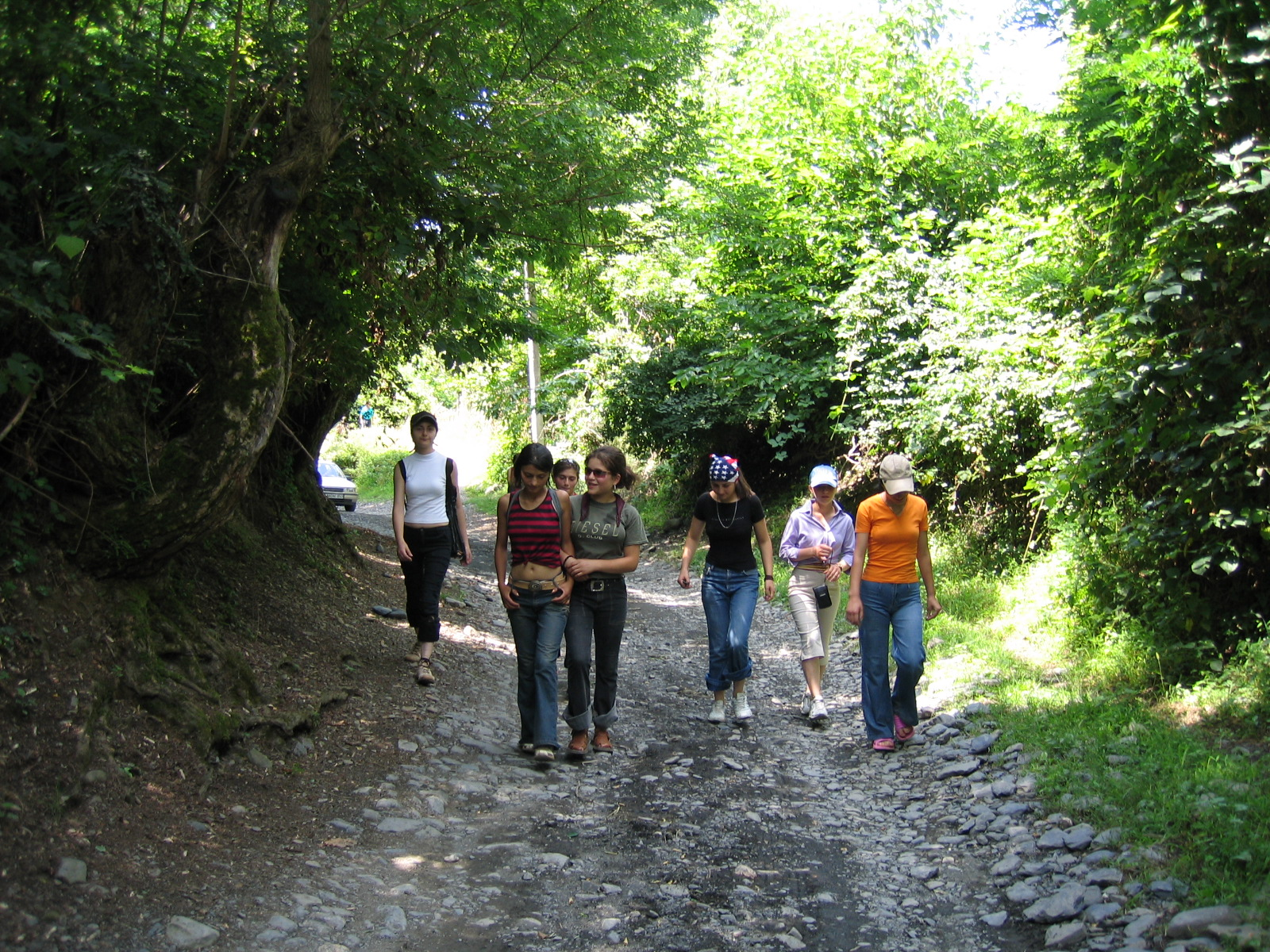 Walking in Shilda